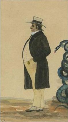 Actor William J Le Moyne, self portrait in water colors